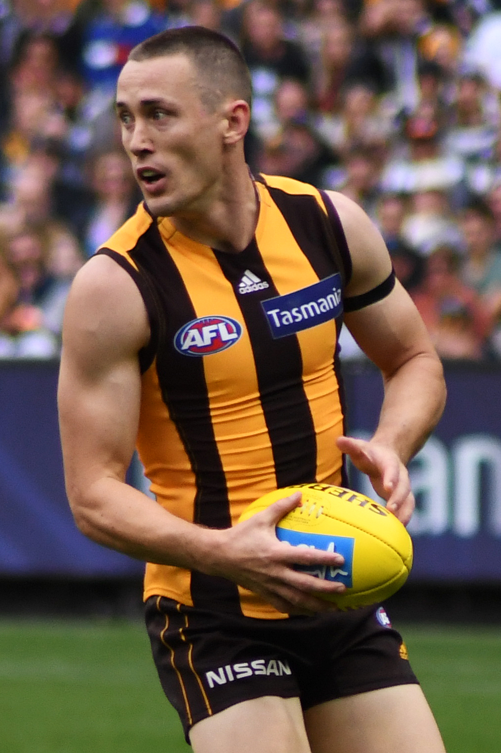 Tom Scully of Hawthorn during the 2019 AFL round 5 match between Hawthorn and Geelong at the Melbourne Cricket Ground on Monday, 22 April 2019 in Melbourne, Victoria.